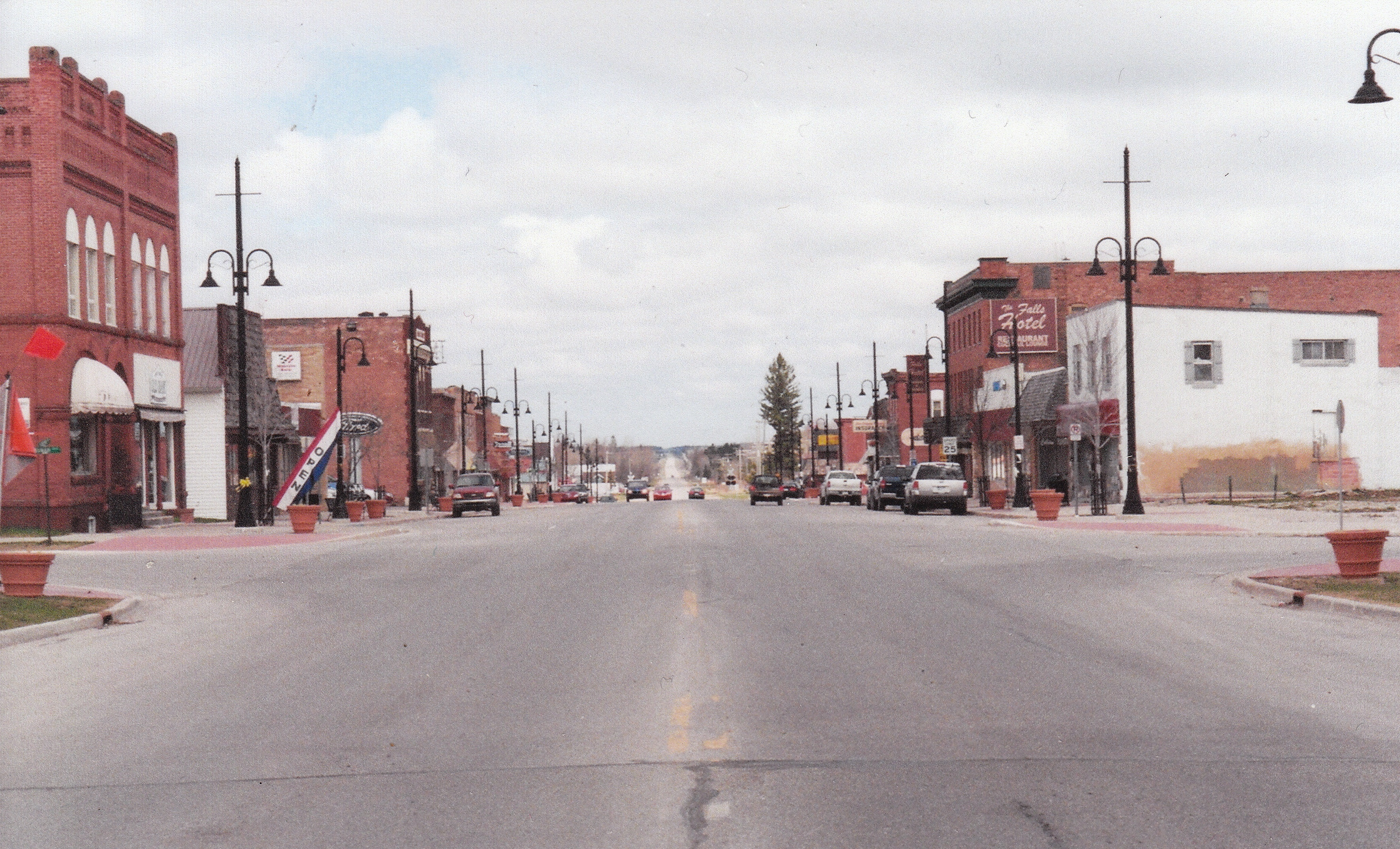 Newberry Avenue looking north in Newberry, Michigan, United States